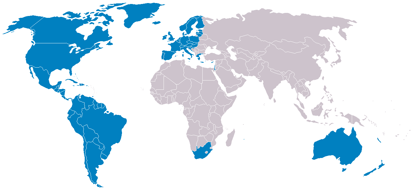 Warning: This work was perceived to be based on original research and therefore should be avoided to use as an illustration in Wikipedia's with a "No original research" policy.